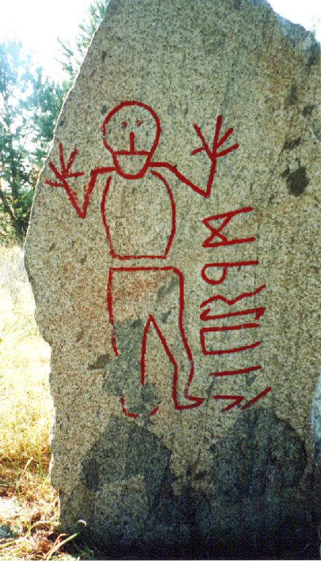 Krogsta runestone (U 1125), 6th century. First described by Johannes Bureu in 1594. The inscription reads mwsïeij (uninterpretable). On the right face is an additional sïainaz, probably for stainaz "stone".